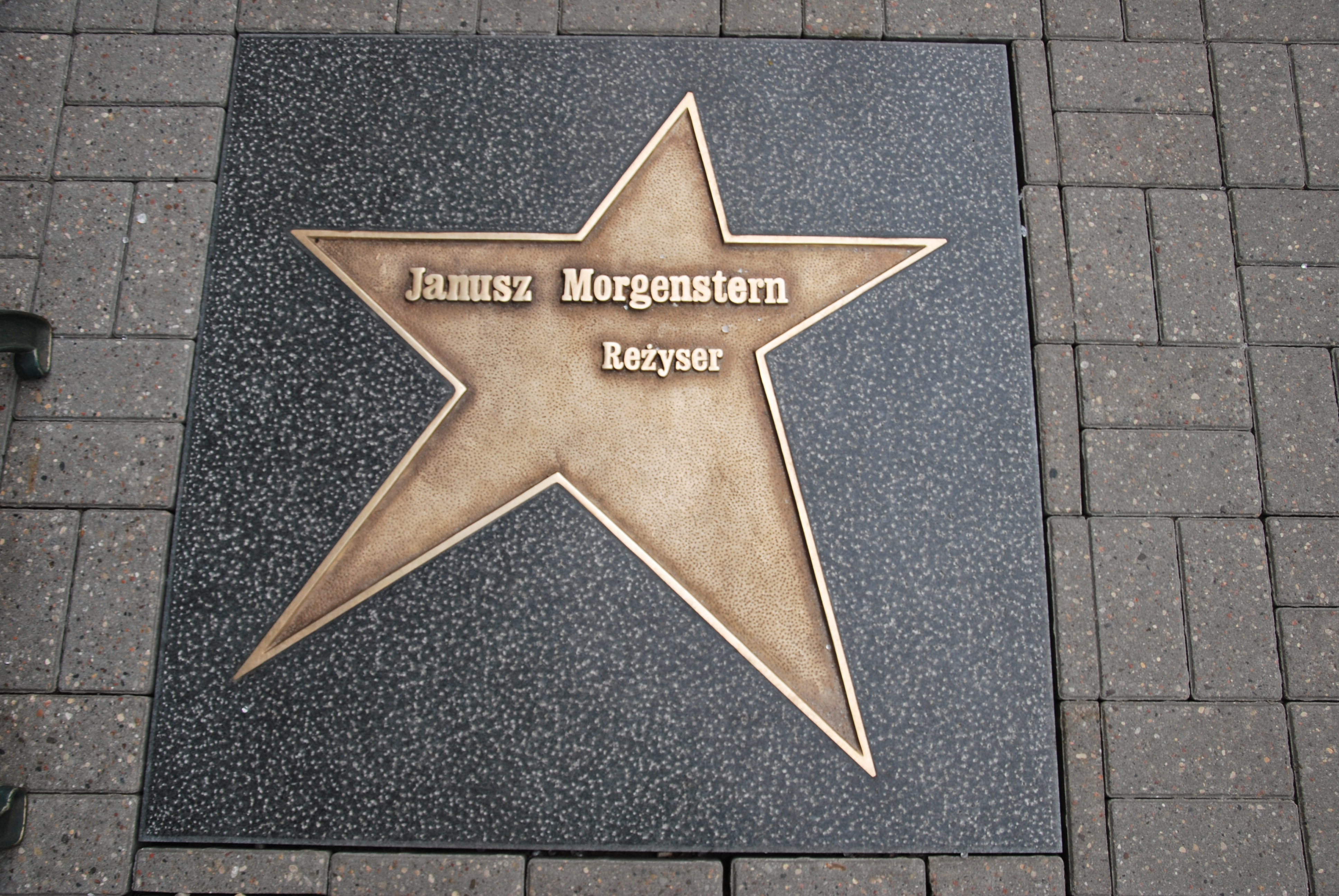 Star of Janusz Morgenstern, polish film director and producer, on Łódź Walk of Fame